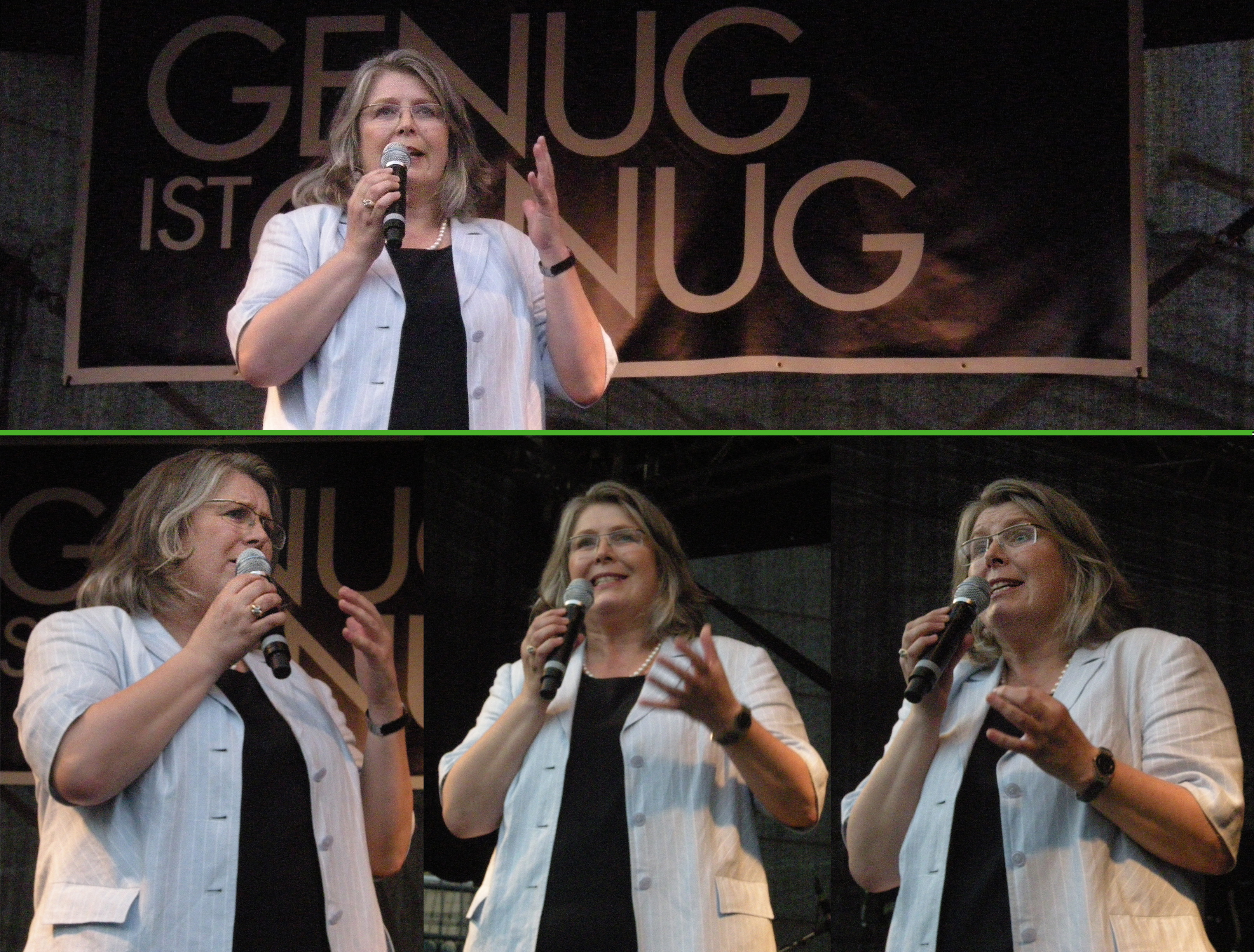 Austrian politician Terezija Stoisits speaking in front of some ~10.000+ persons who are demonstrating against actual Austrian 'policy' on asylum rights. This event was supported by a considerable quantity of renowned Austrian artists, writers and politicians. Please note that camera's time stamp is set to UT, which is local CEST -2h.